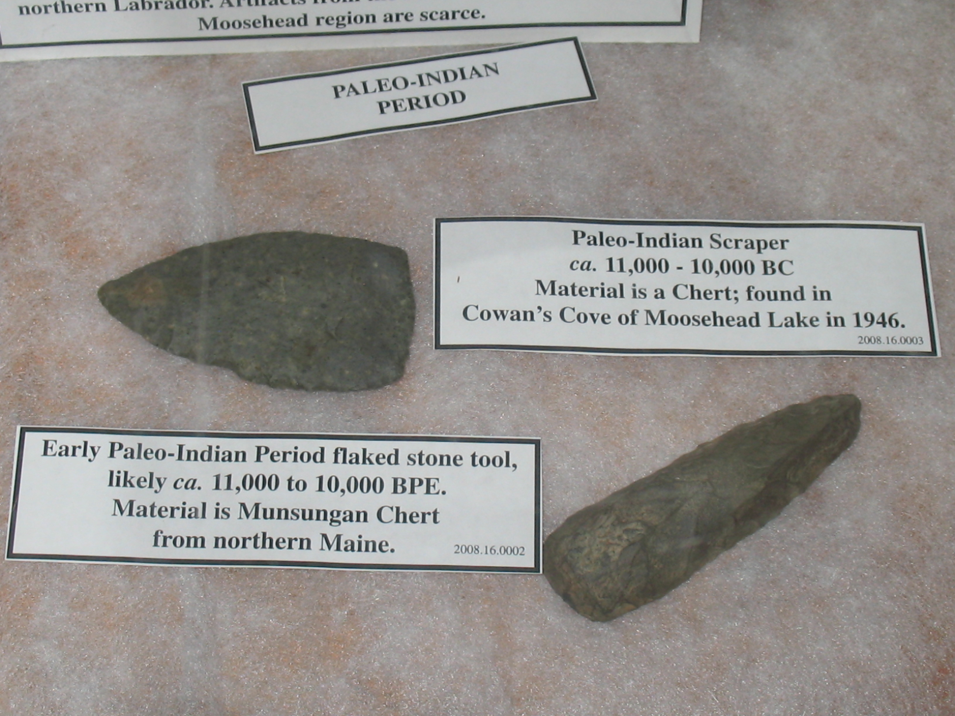 paleoindian tools from Moosehead Lake, Maine (USA), 11,000 BC